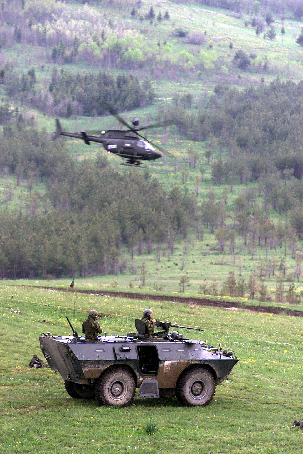 A US Army (USA) OH-58D Kiowa Warrior helicopter provides close air support for Portuguese Army Soldiers aboard a Chaimite V-200 Armored Personnel Carrier, on the Glamoc live-fire range, while participating in Exercise IBERIAN RESOLVE, at Camp Butmir, Bosnia and Herzegovina.